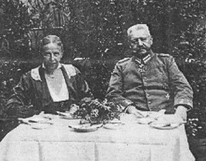 Paul von Hindenburg and his wife in 1917.